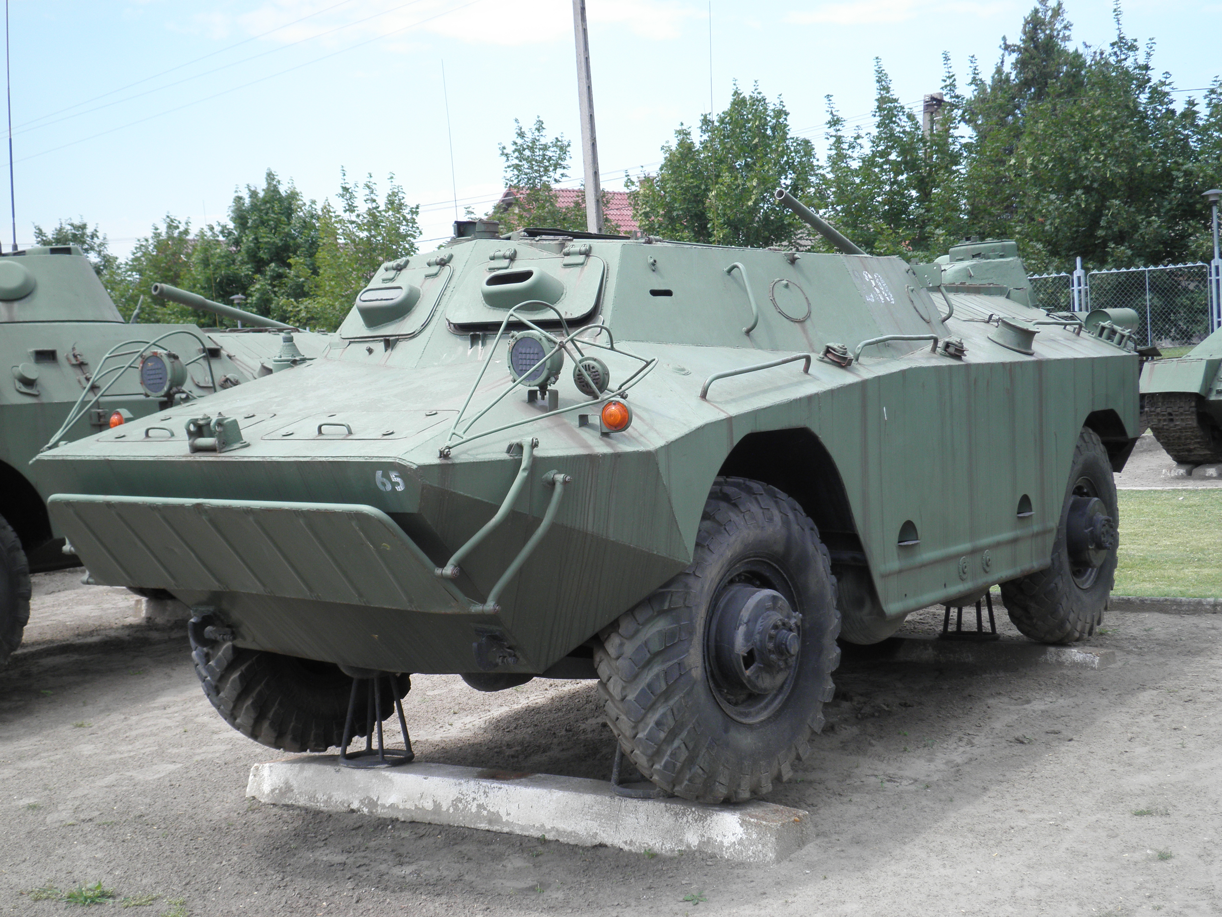 D-442.00 FUG amphibious armoured scout car in Army History Museum and Park in Kecel, Hungary